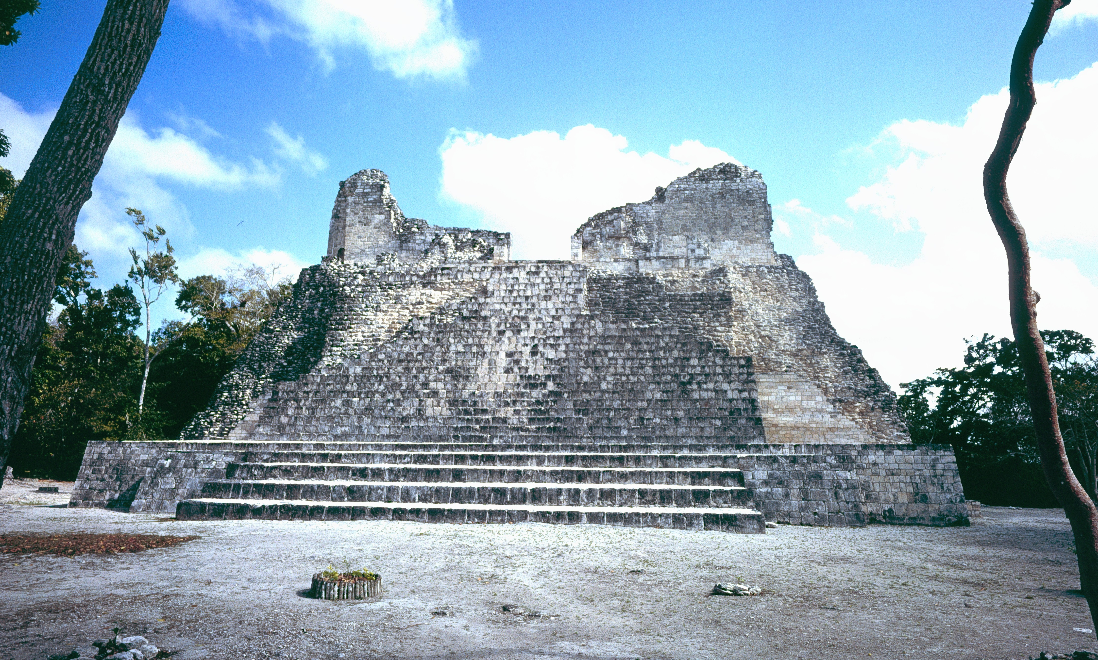 Becan, Campeche, Mexico: building IV south side